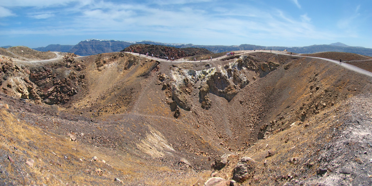 Nea Kameni, Greece.